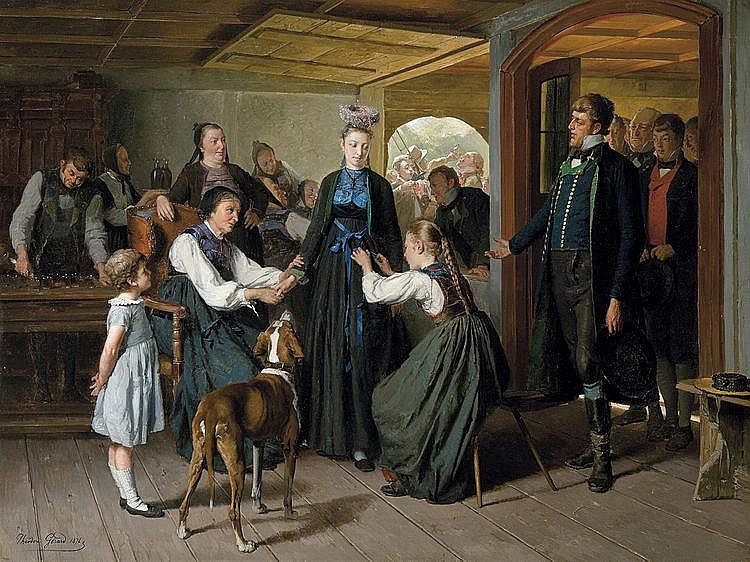 The bride